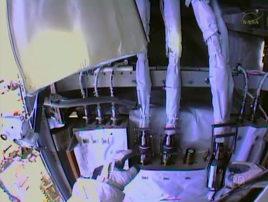 Spacewalker Rick Mastracchio works to disconnect the fluid lines from the degraded pump module in this view from the NASA astronaut's helmet camera.